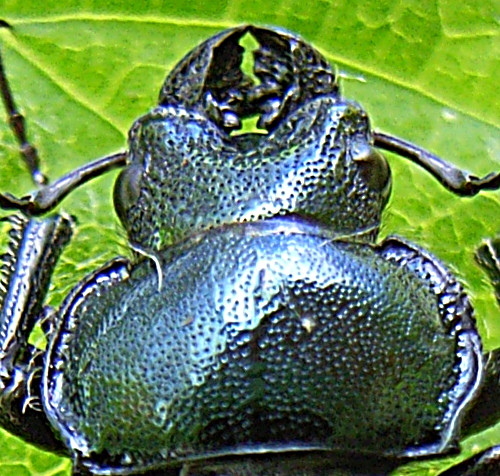 Pronotum of Platycerus caraboides from Southern Germany in May 12th